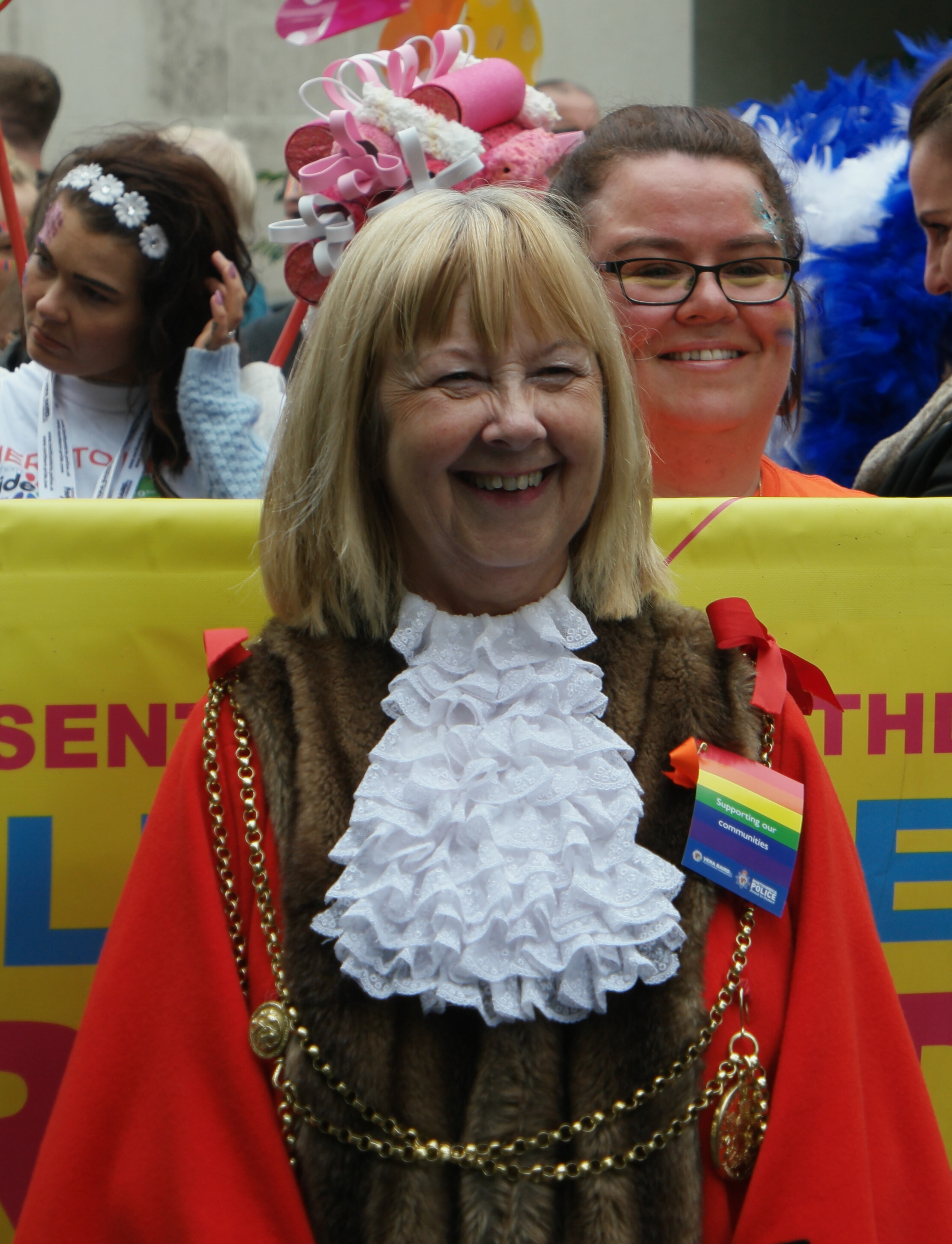 Newcastle Pride 2017